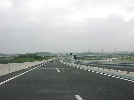 Naha Airport Expressway